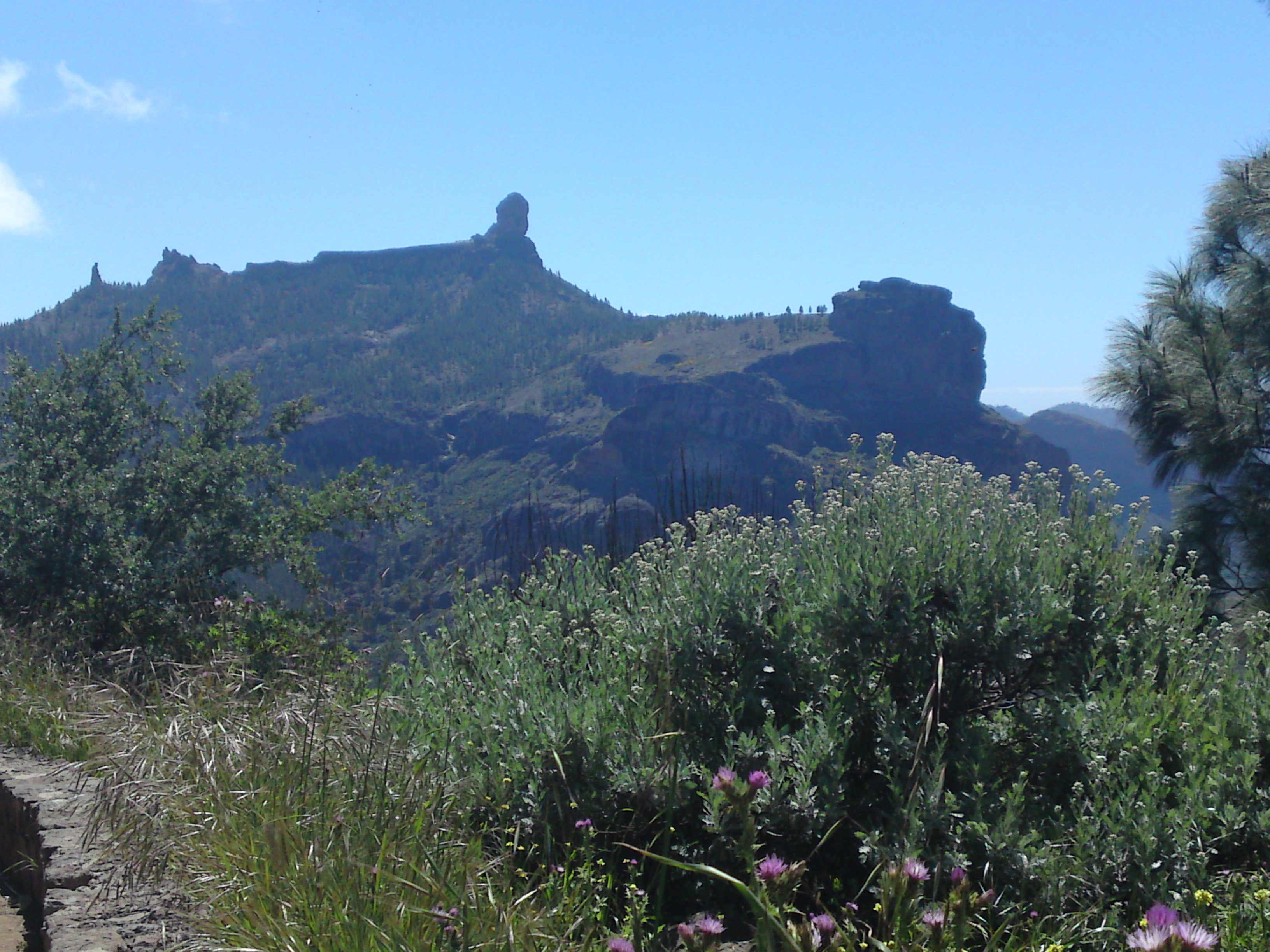 Roque Nublo, with the rock named El Fraile (the Friar) to the left